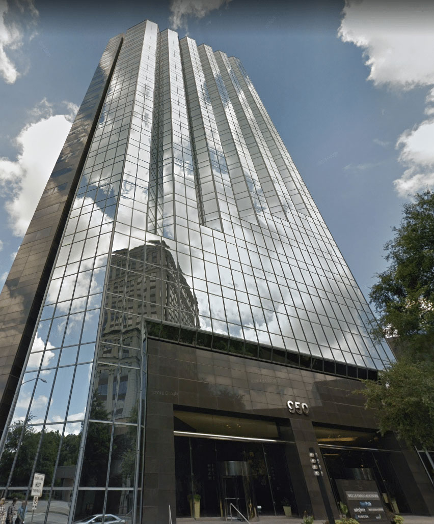 Salesforce Tower Atlanta in 2020